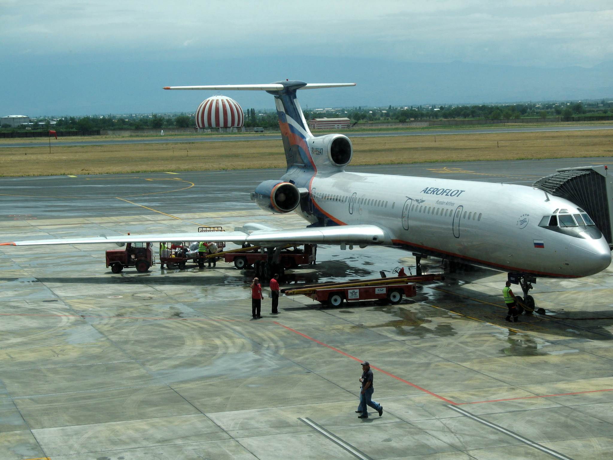 Aeroflot Tu-154 at Zvartnots airport after arriaval and unloading baggage.